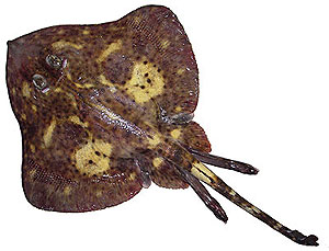 Bathyraja mariposa, Butterfly skate (Stevenson 2004). First described in Stevenson et al, Copeia 2004:305-314.